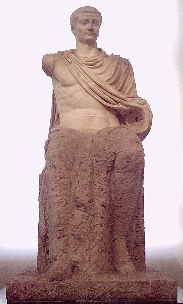 Marble statue of Roman emperor Tiberius (42 BC–37 AD). Sculpted in the first half of the 1st century. Found in Paestum (Campania, Italy) in 1860 during an excavation financed by José de Salamanca y Mayol.